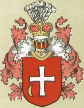 Tarnawa coat of arms by Zbigniew Leszczyc published in "Herby szlachty polskiej"